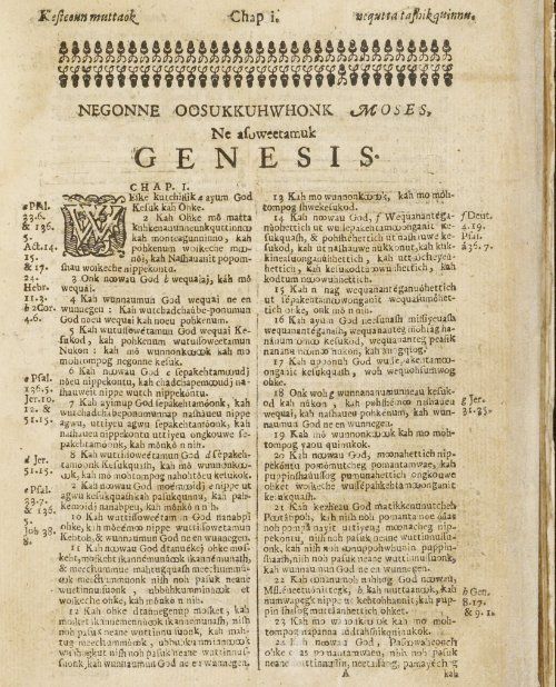 Algonquian Bible 1663 Genesis 1